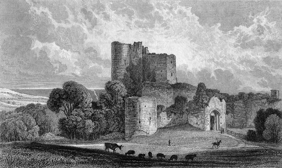 Engraving of "Saltwood Castle, Kent" from Ireland's History of Kent, Vol. 2, 1831. It appears between pages 214 and 215. Drawn by G. Sheppard, engraved by H. Adlard.